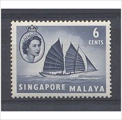 Stamp showing a Malay Pinas